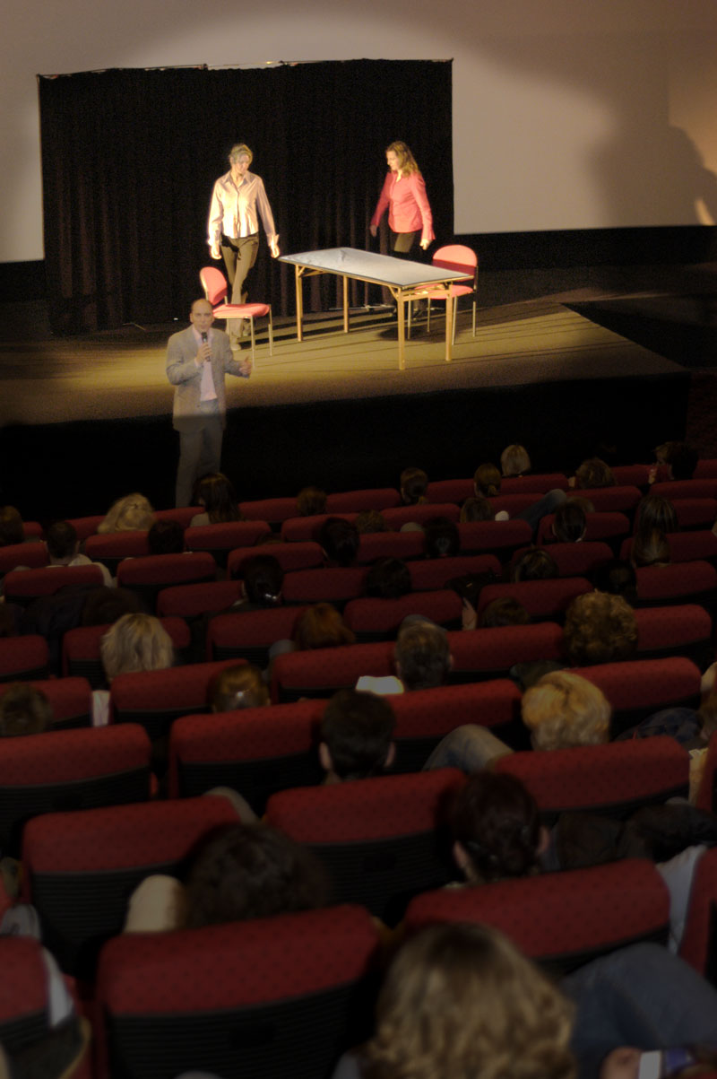 Corporate theatre in a serious context performed by THEATER INTERAKTIV in 2004.